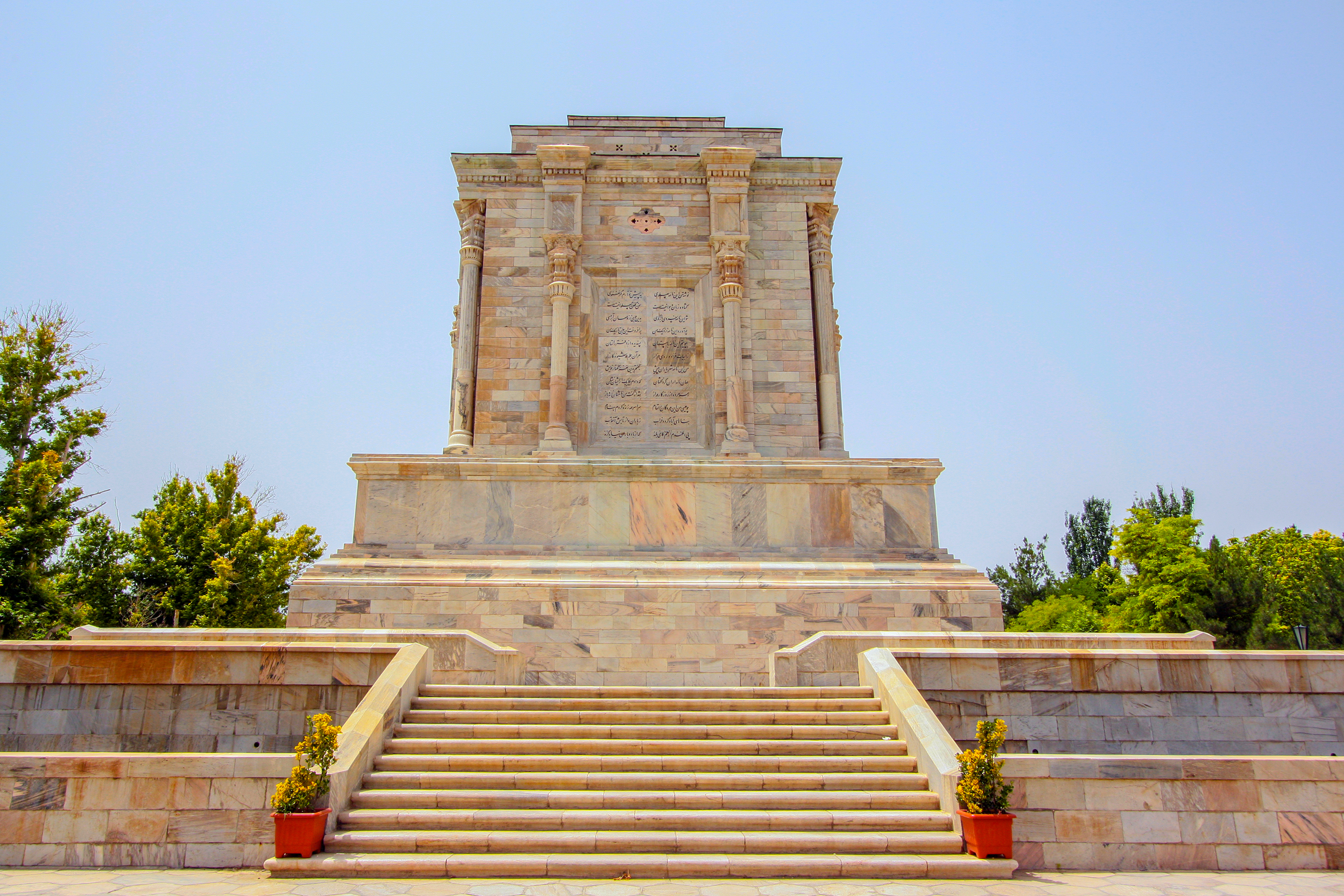 Tomb of Ferdowsi is a tomb complex composed of a white marble base, and a decorative edifice erected in honor of this Persian poet located in Tus, Iran, in Razavi Khorasan province.